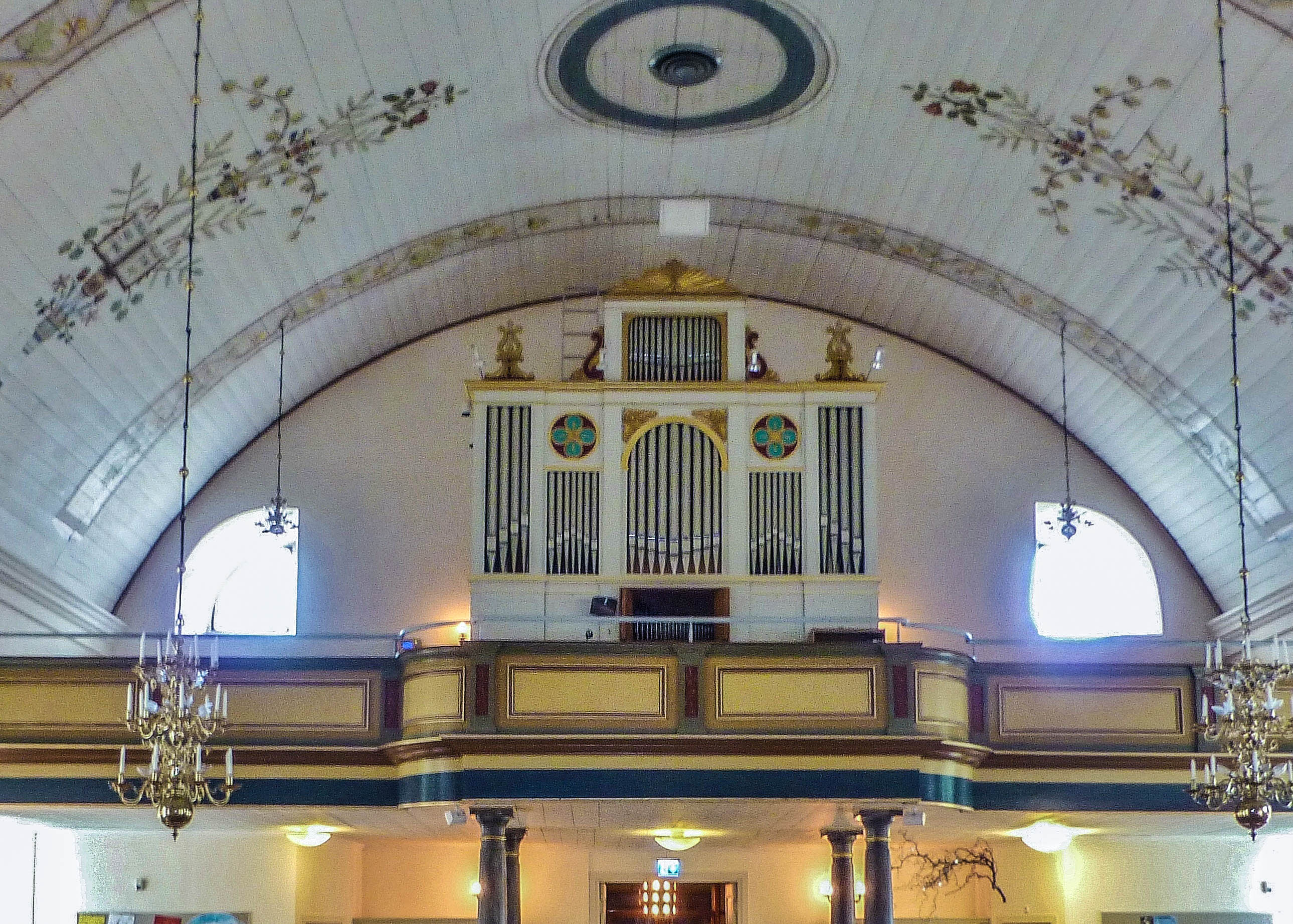 Ljungby Church.Kronobergs Country. Organ.